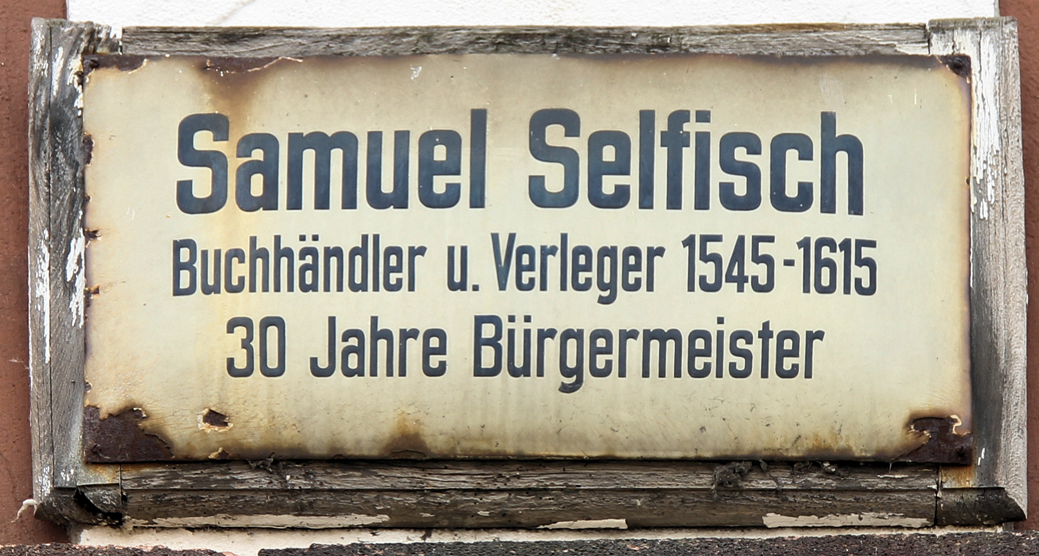 Memorial plaque, Samuel Selfisch, Markt 6, Lutherstadt Wittenberg, Germany Koordinate:51°51′57″N 12°38′38″E / 51.86583°N 12.64389°E